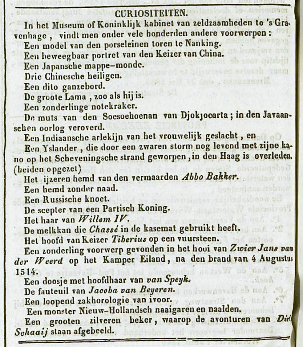 Article in the Vlissingsche Courant (newspaper) about the collection of the Royal Cabinet of Curiosities in The Hague, the Netherlands.